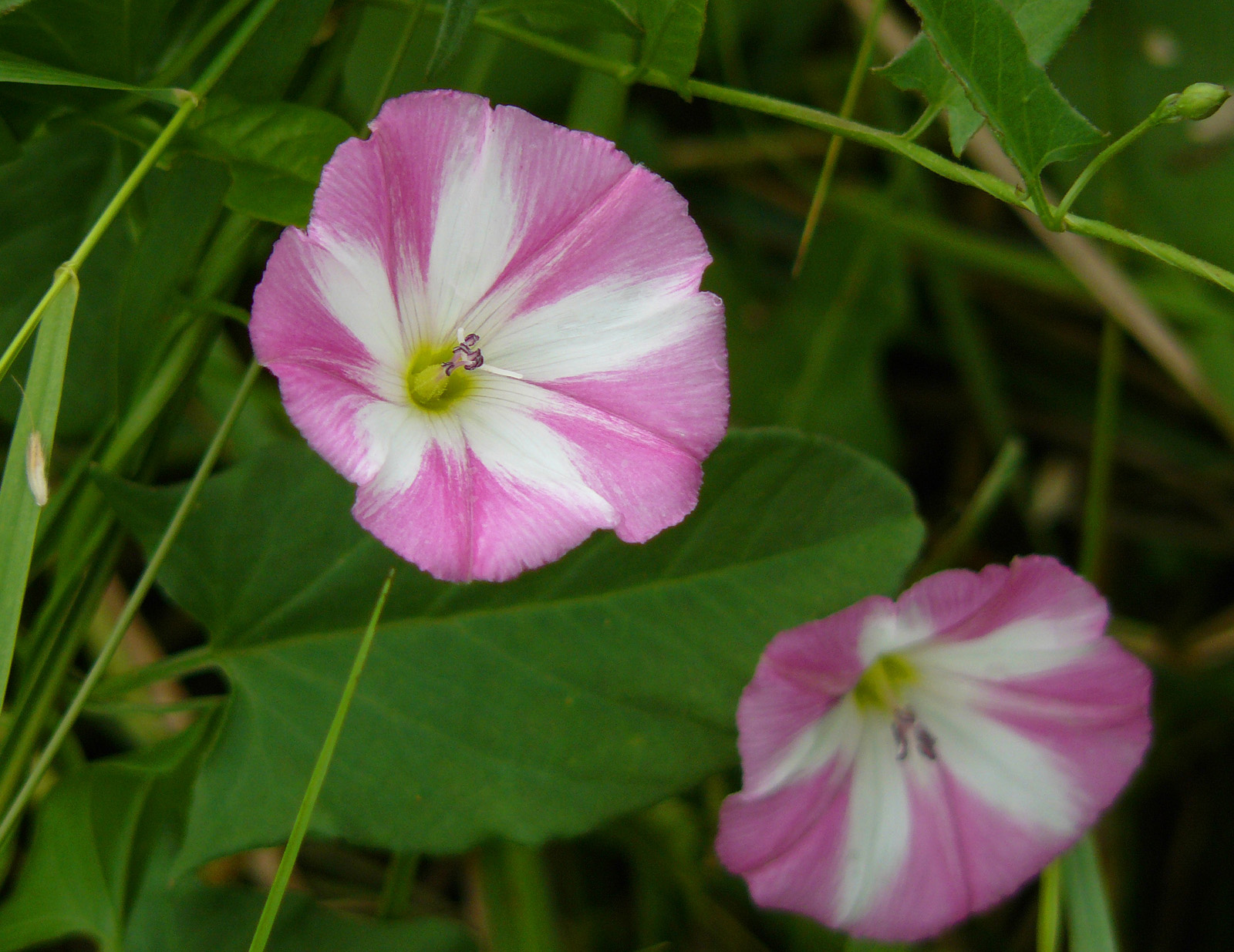 Ther field bindweed (Convolvulus arvensis) looks like a wonderful decorative plant